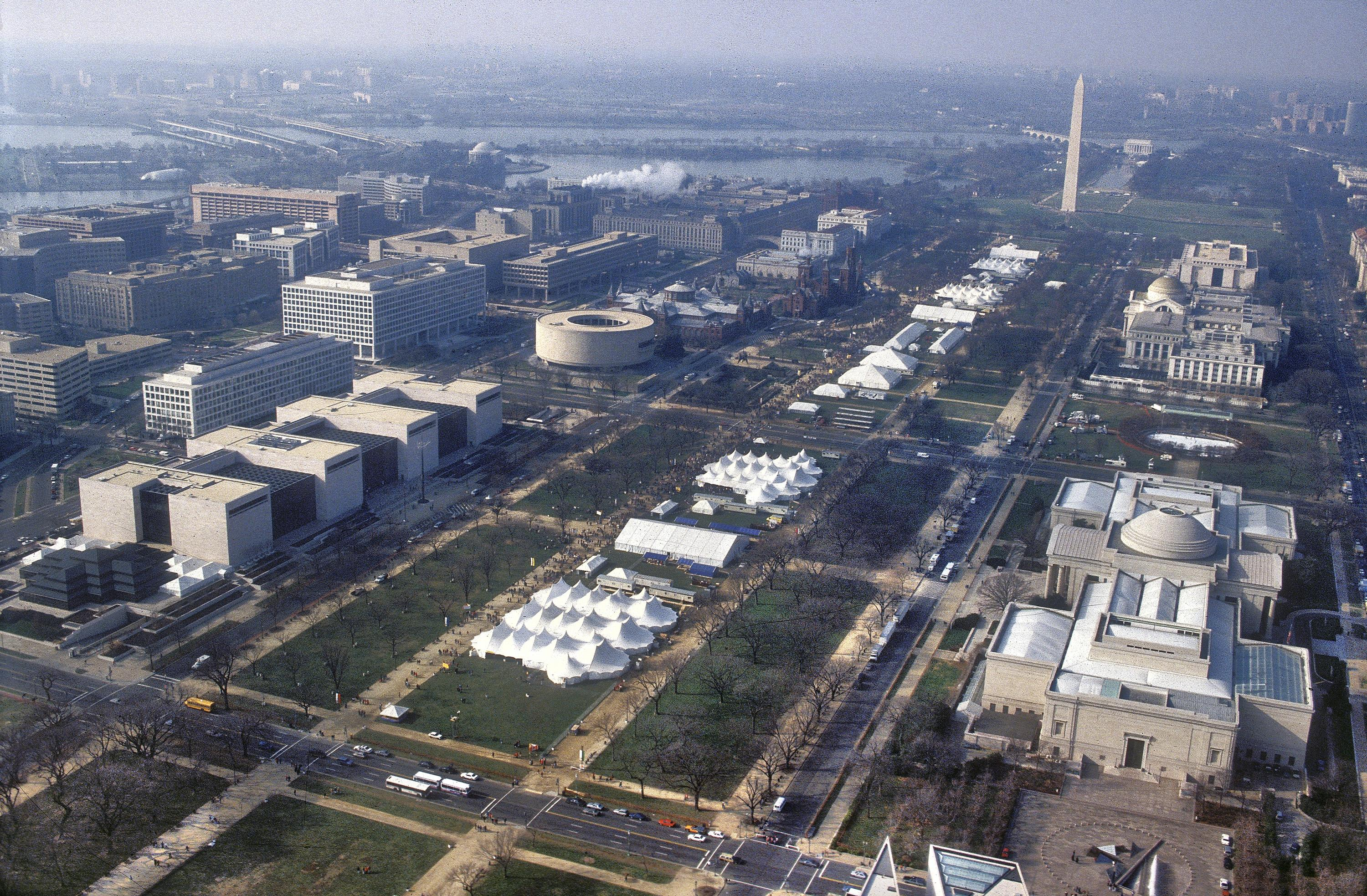 Description: 2003-0088, Aerial Photography, William J. Clinton Presidential Inauguration, aerial Mall, (depicting area of NASM towards Washington Monument, TENTS), from 35mm ektachrome. Creator/Photographer: Carl Hansen Medium: Ektachrome print Culture: American Date: 1993 Persistent URL: [1] Repository: Smithsonian Institution Archives/Smithsonian Photographic Services Accession number: 2003-0088